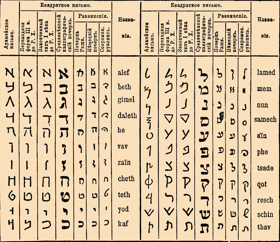 Illustration from Brockhaus and Efron Jewish Encyclopedia (1906—1913)